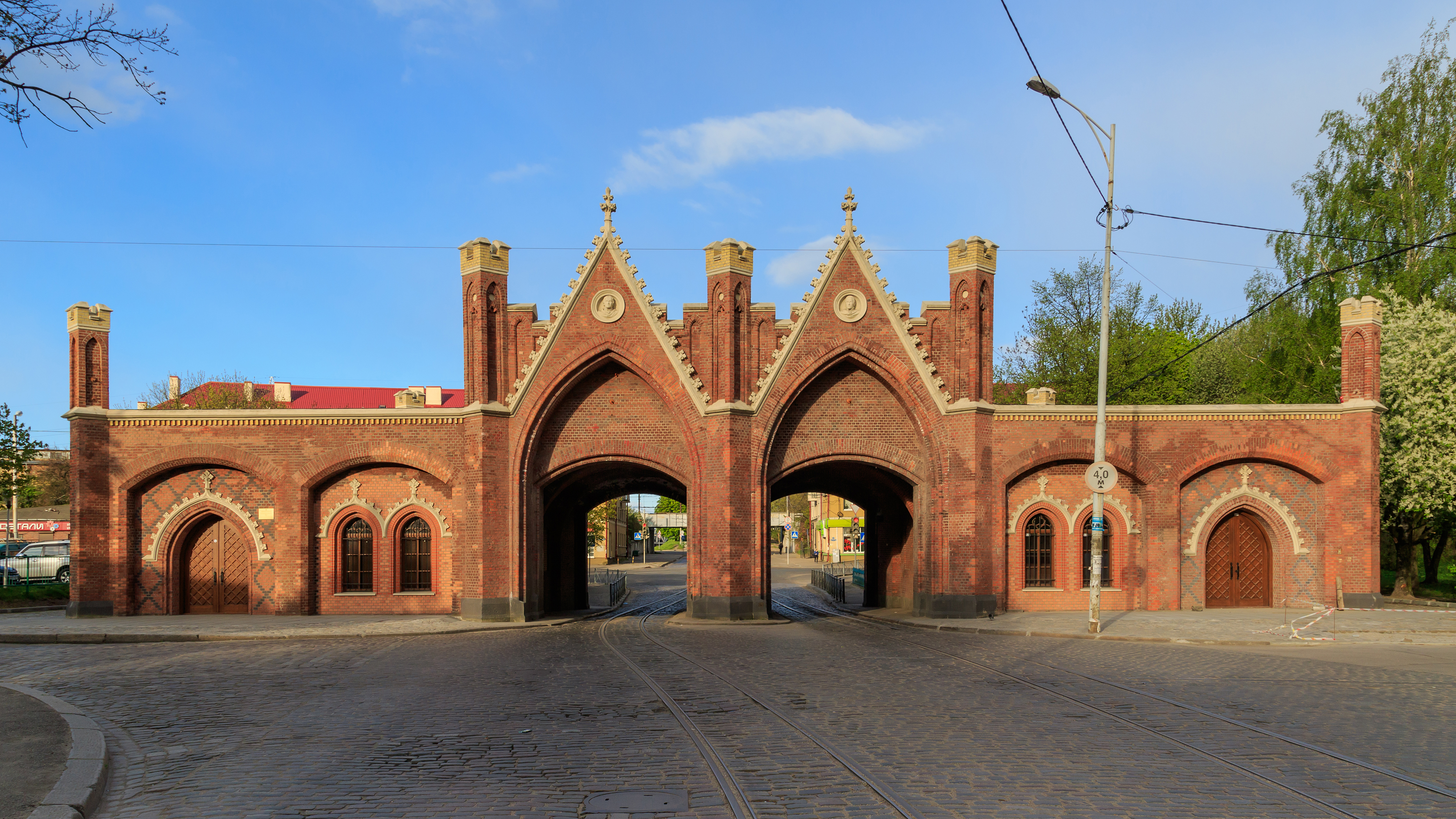 Brandenburg Gate (east side) in Kaliningrad formerly Königsberg, Kaliningrad Oblast (Russia).